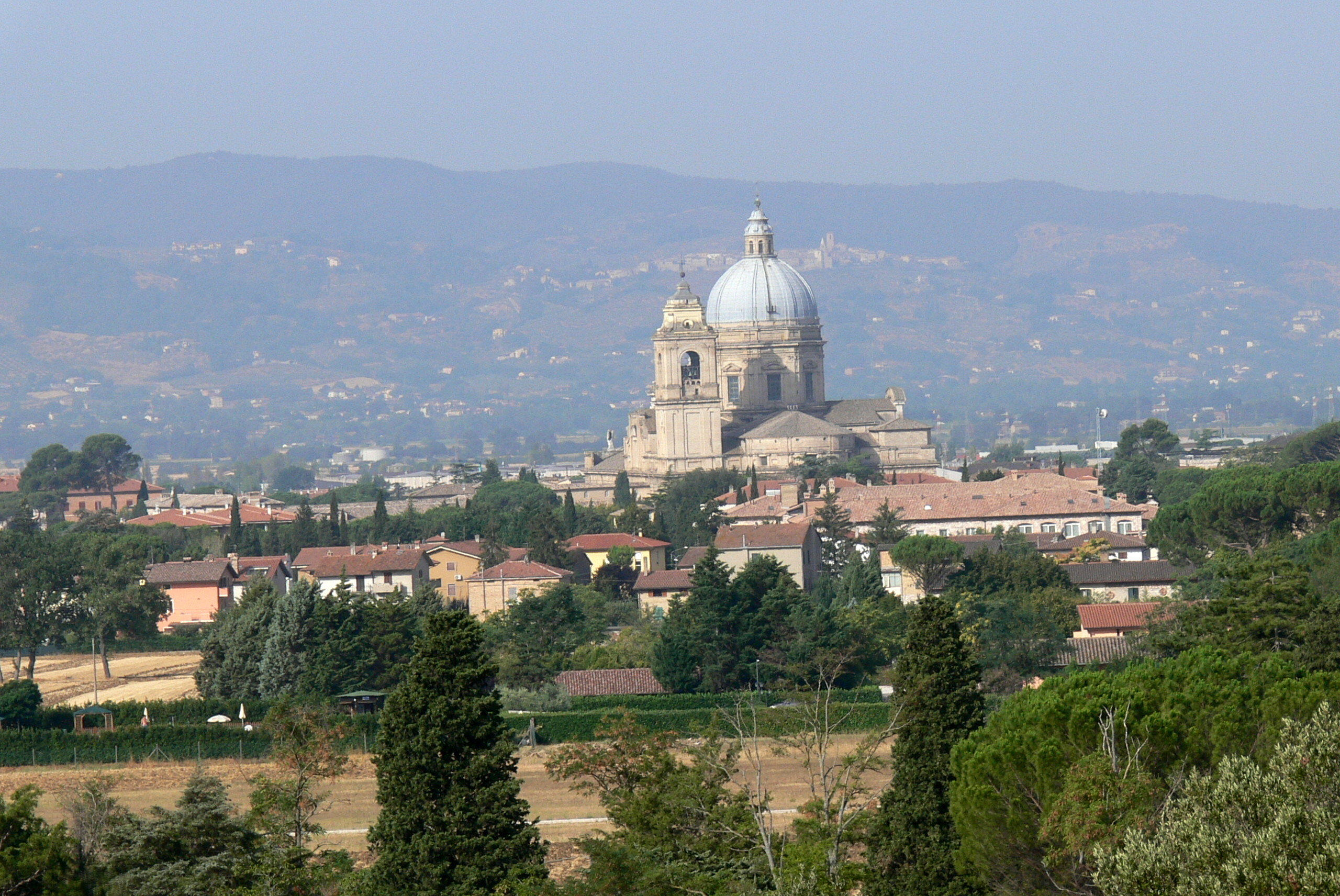 Assisi ( Italy ). Panoramic view of Santa Maria degli Angeli.